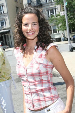 Mandy Gonzalez